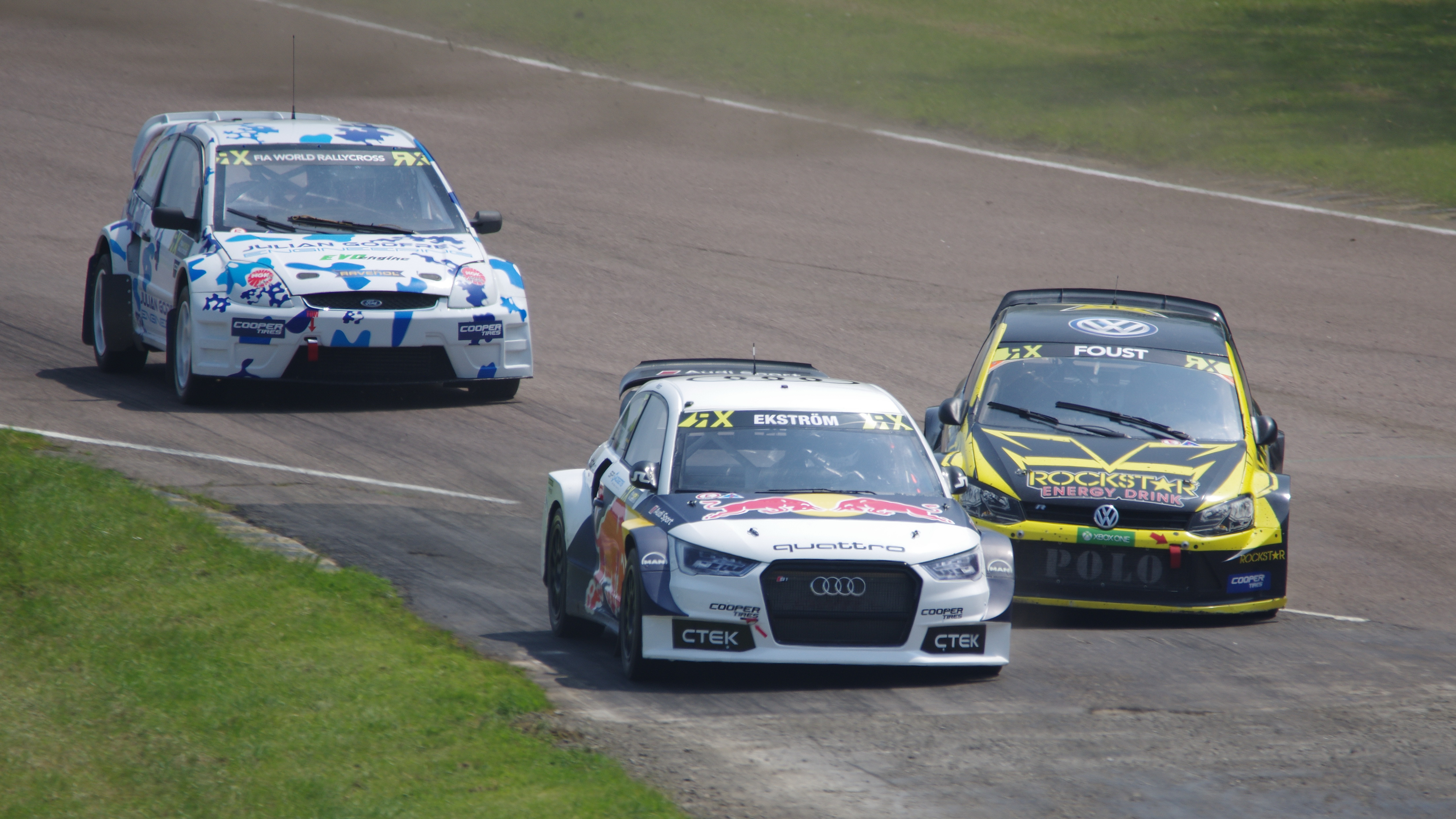 Saturday 28th May